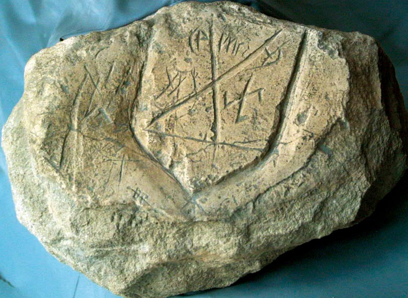 Old Hungarian Script unearthed in Pecs, (circa 1250 AD)